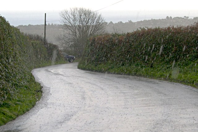 Raining Hard This country road which slopes downhill towards St Austell rapidly becomes something more akin to a river as the rainstorm hits the St Austell hills.